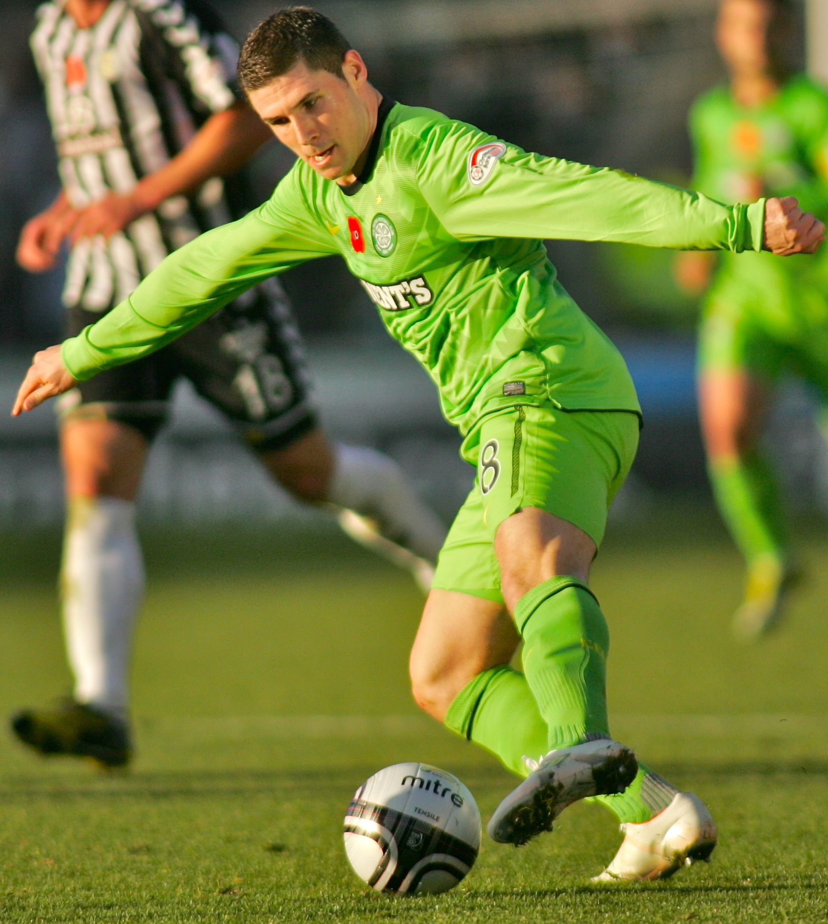 Gary Hooper playing for Celtic FC in a Scottish Premier League match against St. Mirren FC